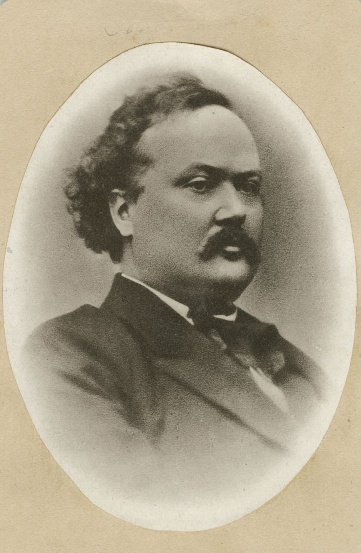 Artist: Unknown Date/place: Unknown Subject: Johan August Söderman Medium: Photogarphic posetiv Notes: Swedish composer. born in Stockholm17.07. 1832 - dead in Stockholm 10.02. 1876 Original belongs to the Archives at [#//bergenbibliotek.no/digitale-samlinger” Bergen Public Library]